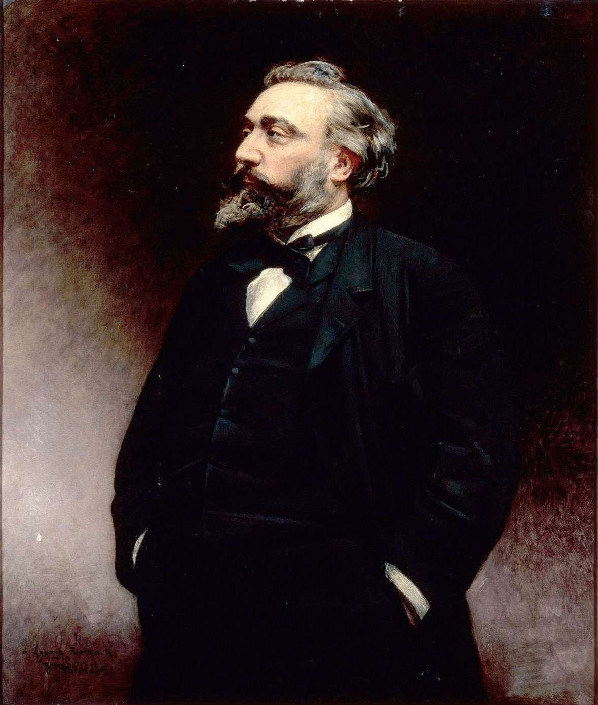 Portrait of Léon Gambetta by Léon Bonnat.